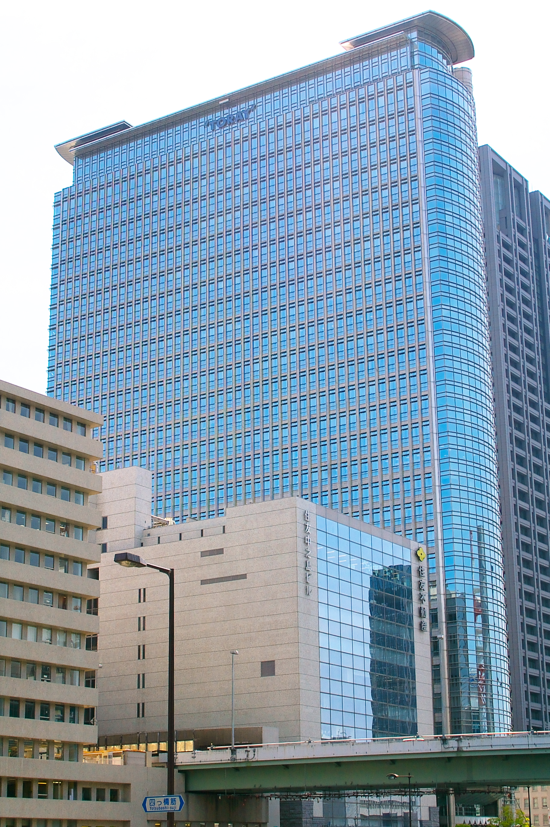 Photograph of Nakanoshima Mitsui Building, Osaka head office of Toray Industries, in Kita-ku, Osaka, Osaka Prefecture, Japan.